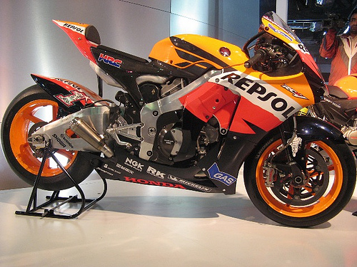 Exhibited in AutoExpo 2008